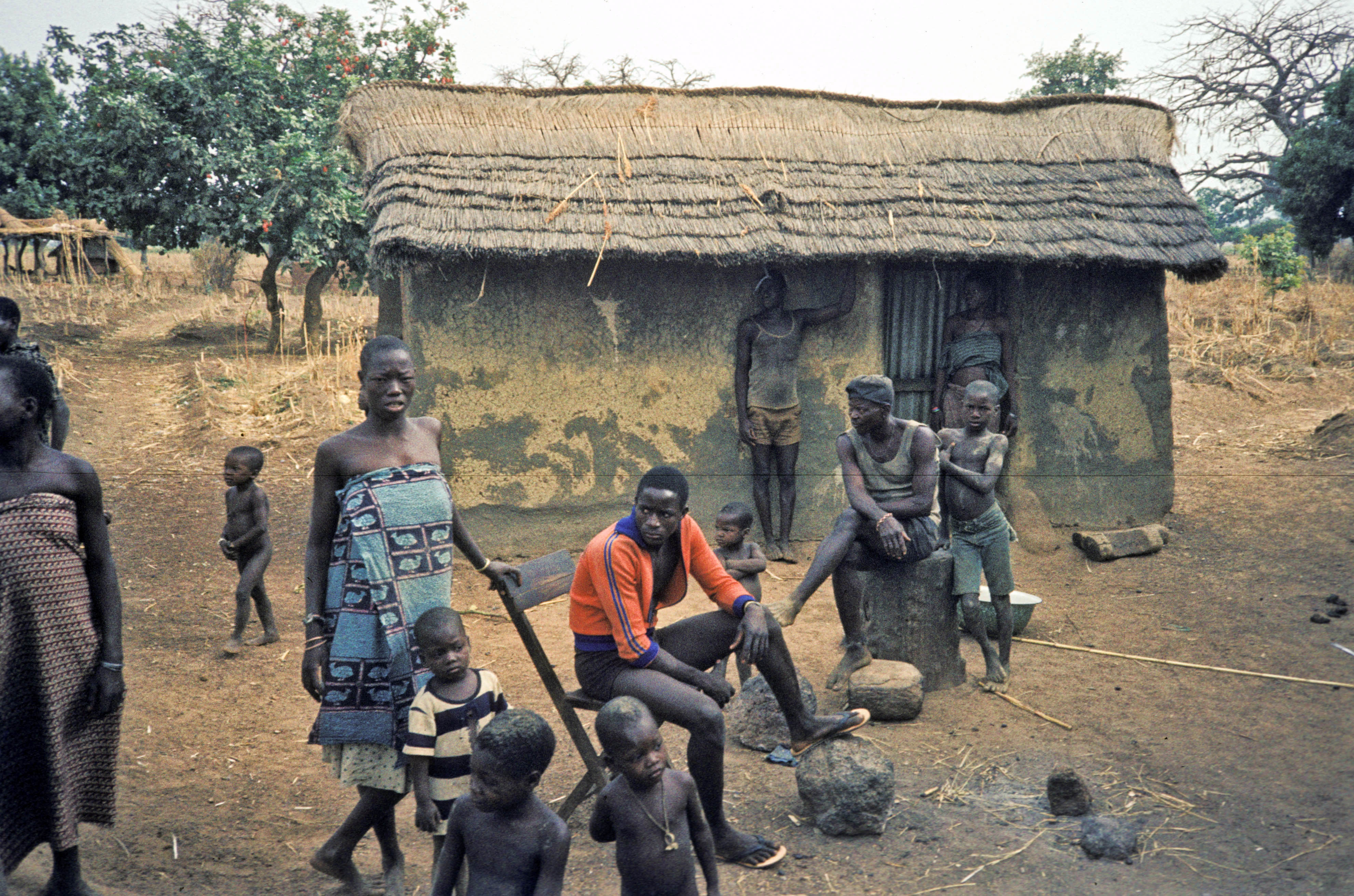 Image from Togo or Benin, Africa in 1985; locality details unknown